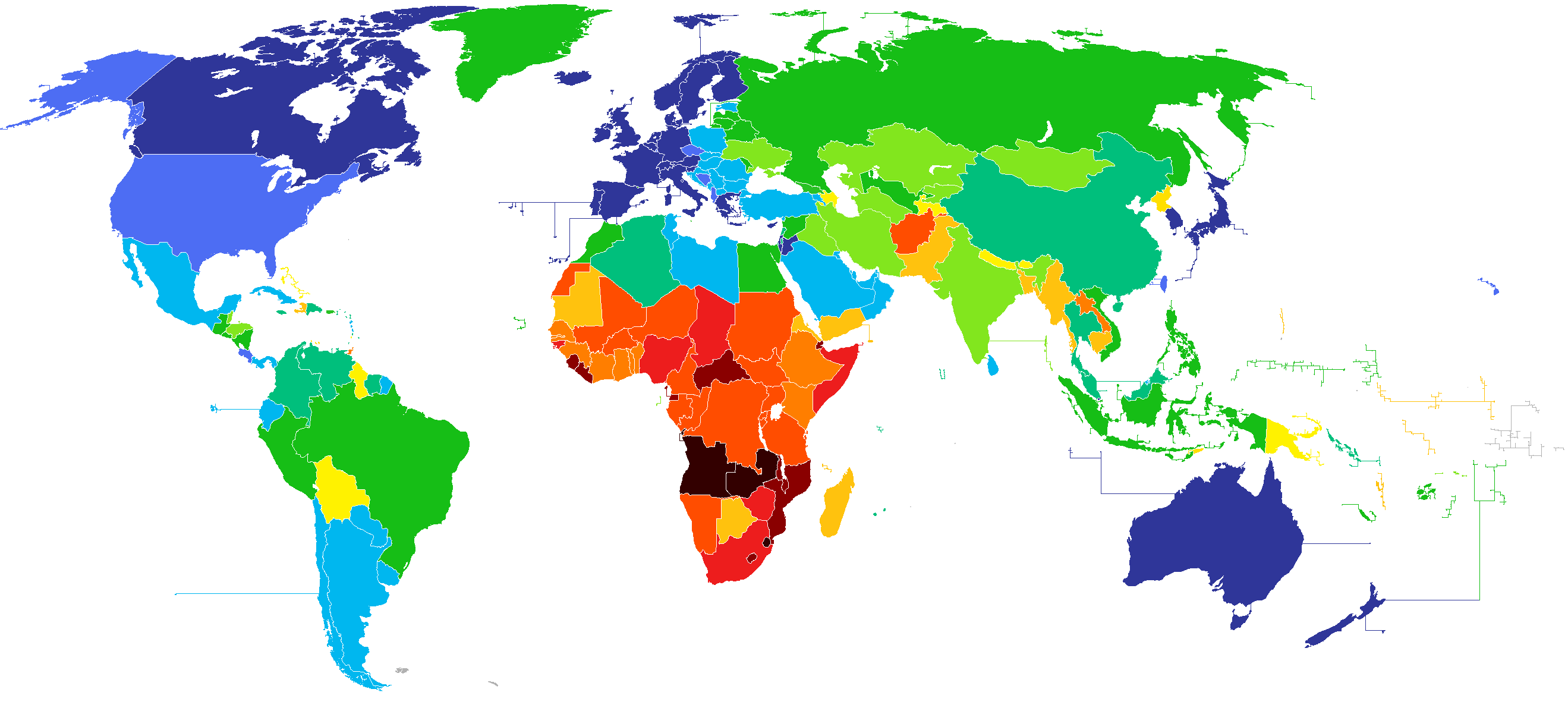 Expectancy of life in the world as of 2015 +80 +77.5 +75 +72.5 +70 +67.5 +65 +60 +55 +50 +45 +40 - 40